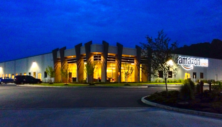 The Amazon Customer Service Center in Kinetic Park. Taken May 16, 2013.